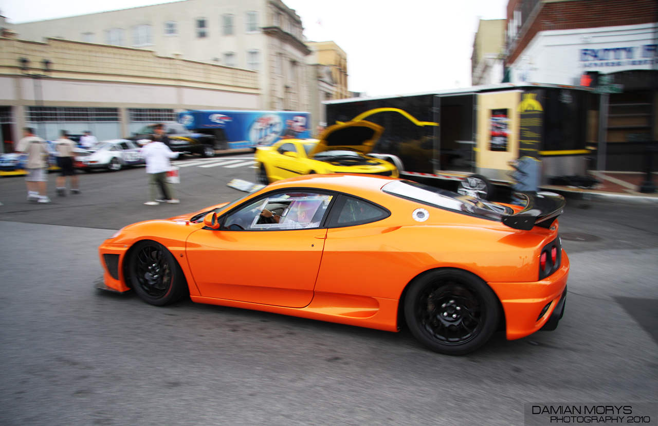 So crazy.. especially in orange!